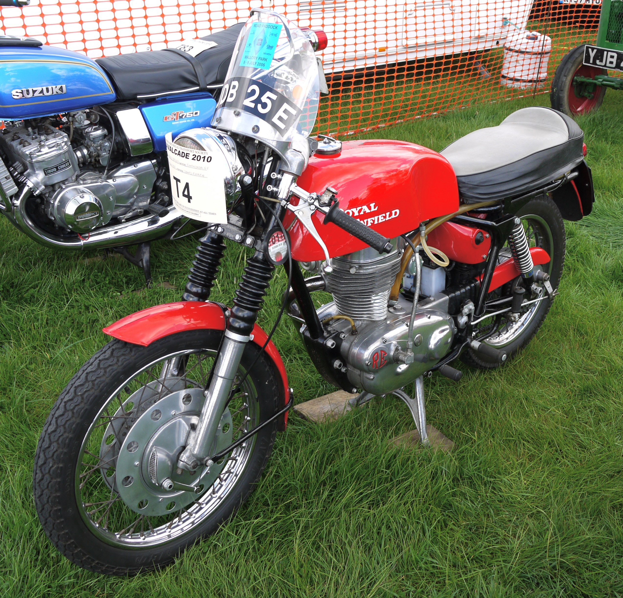 Royal Enfield Continental GT motorcycle